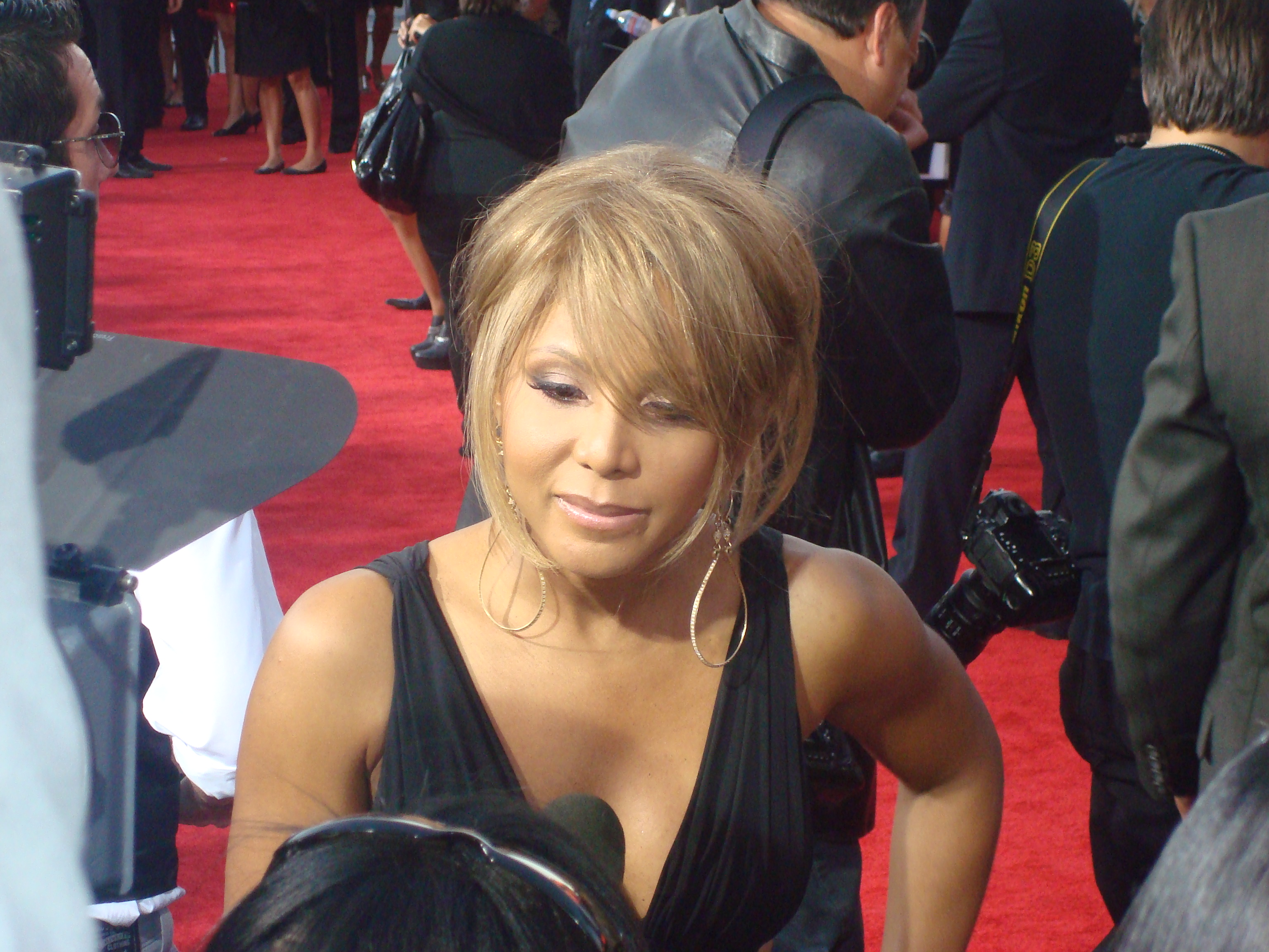 Toni Braxton at the 2009 American Music Awards Red Carpet